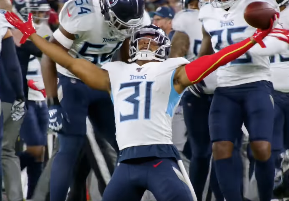 Kevin Byard in 2020. Image from video Titans Mic'd Up vs. Ravens (AFC Divisional Round) | Sounds of the Game, ~ 01:44.